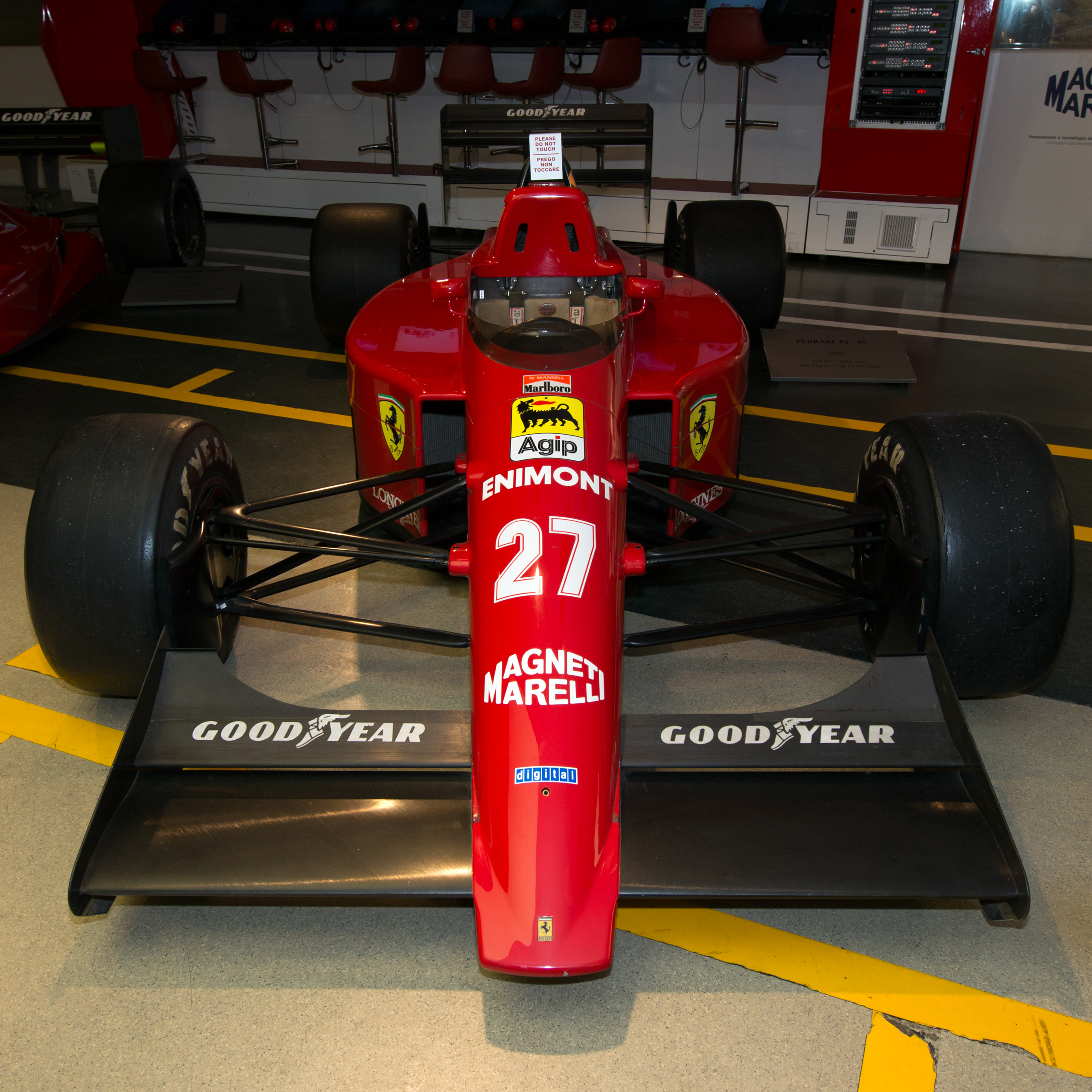 Ferrari 640